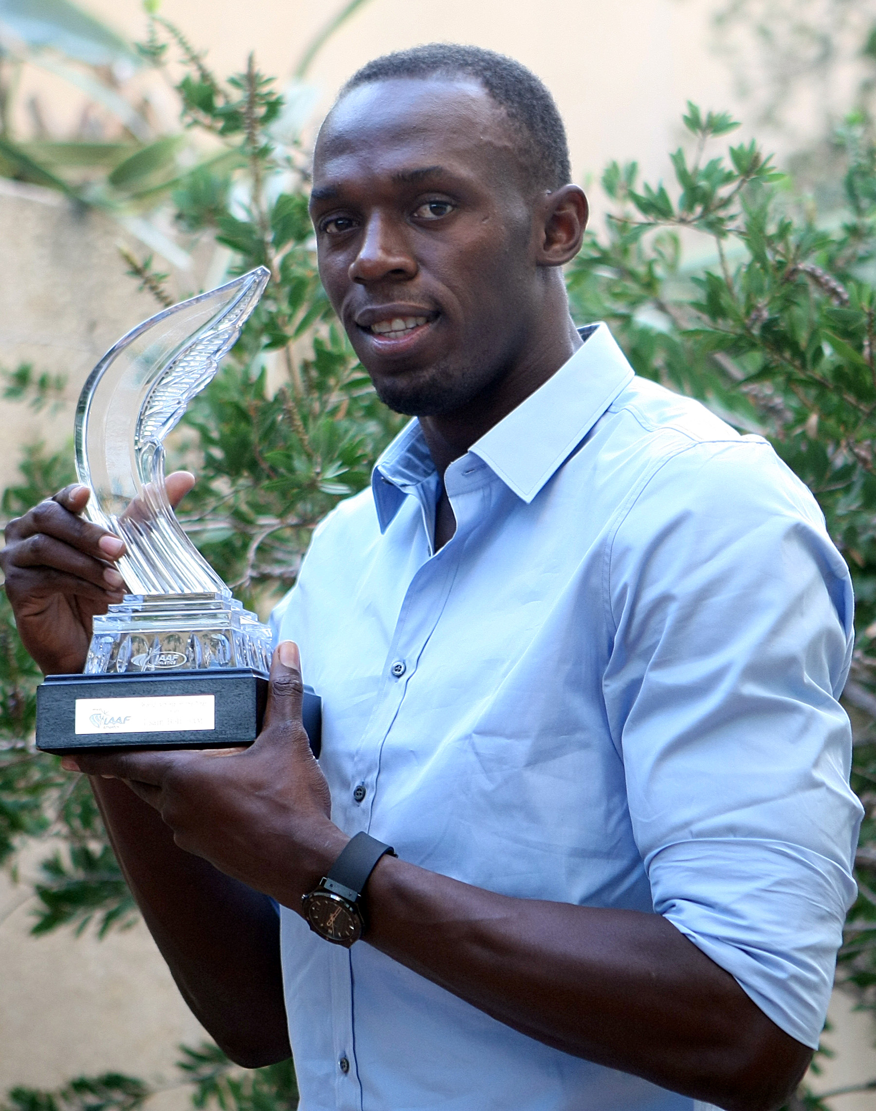 Usain Bolt with the IAAF men's Athlete of the Year award in Monaco. Pic by Mohan